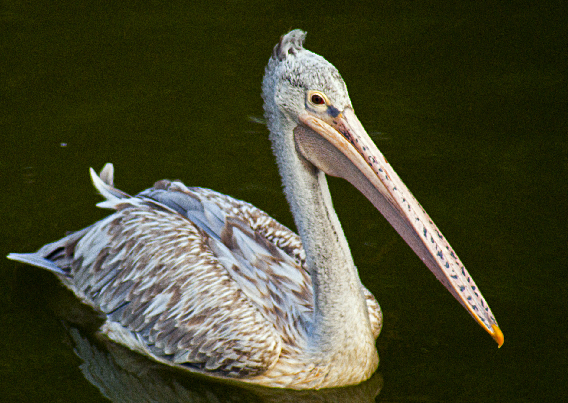 Spot-billed Pelican, Bangalore, India